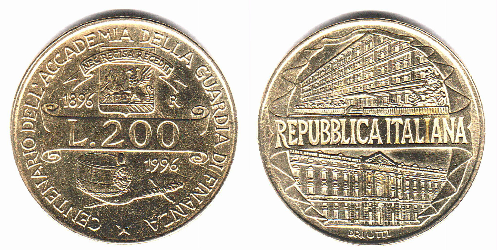 200 lire coin commemorating the Financial Police (1896-1996)